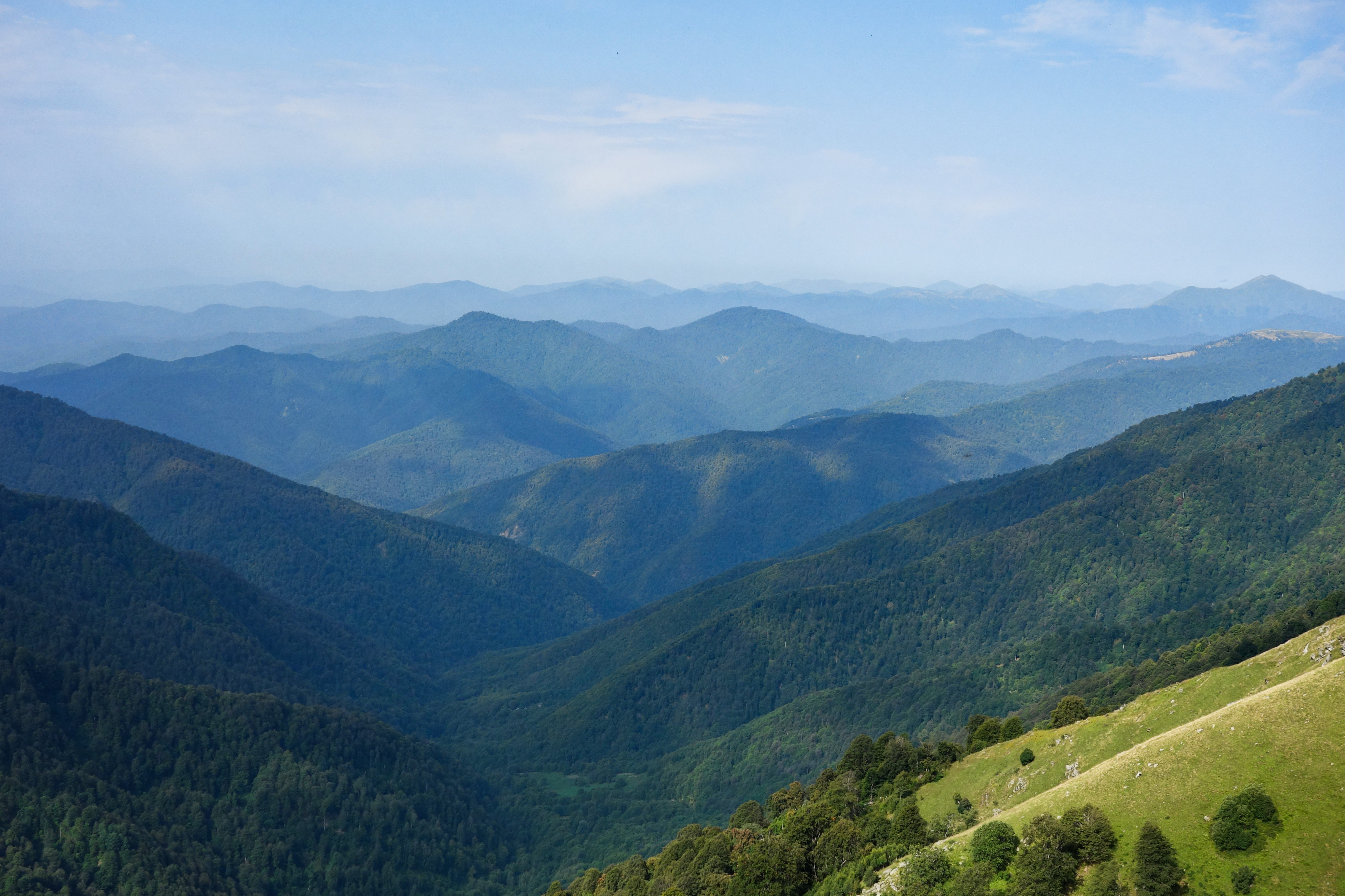 Pankisi Range as seen from the east, Kakheti, Georgia